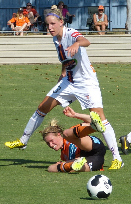 Cecilie Sandvej (Brisbane Roar Women), 12 January 2014, AJ Kelly Fields